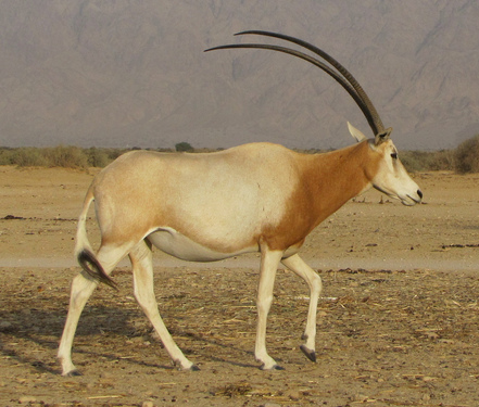 The Scimitar Oryx or Scimitar-Horned Oryx (Oryx dammah) in Yotveta Hai-Bar, Wildlife and Plants of Israel